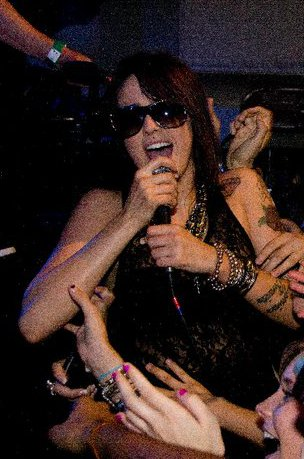 Dev In Santa Cruz